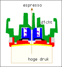 Scheme of the CoEx-switch for espresso.